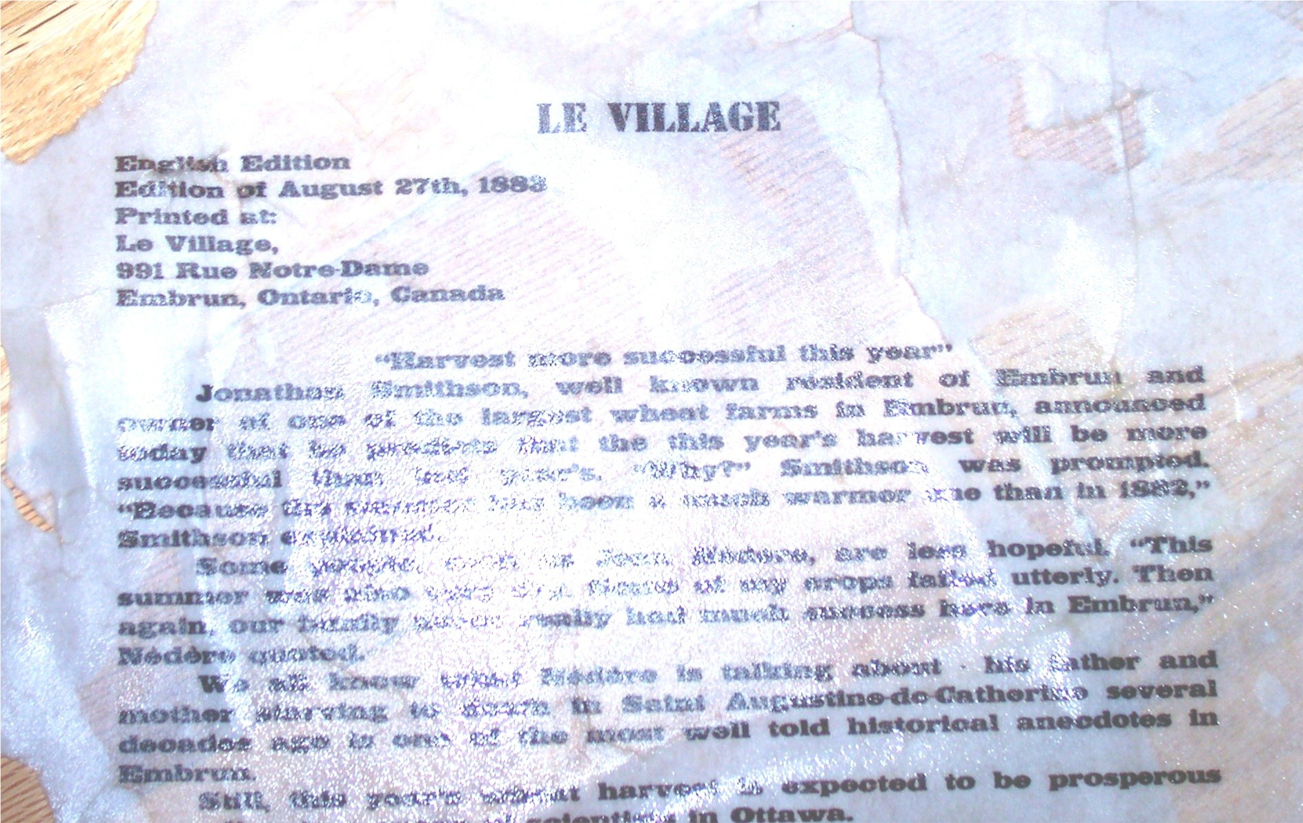 Copy of the English August 27th, 1883 edition of Le Village newspaper.